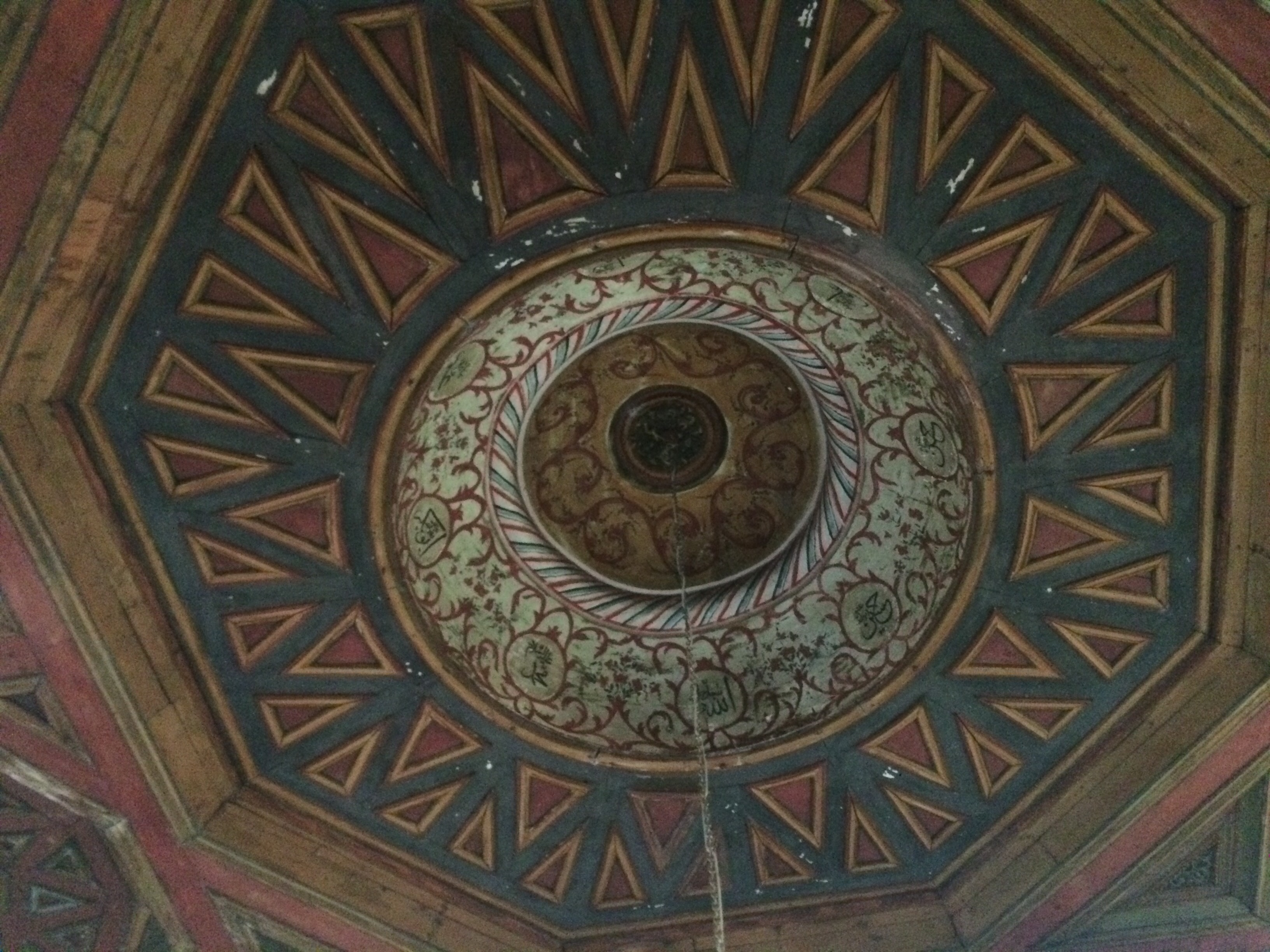 Ceiling of King Mosque in Berat